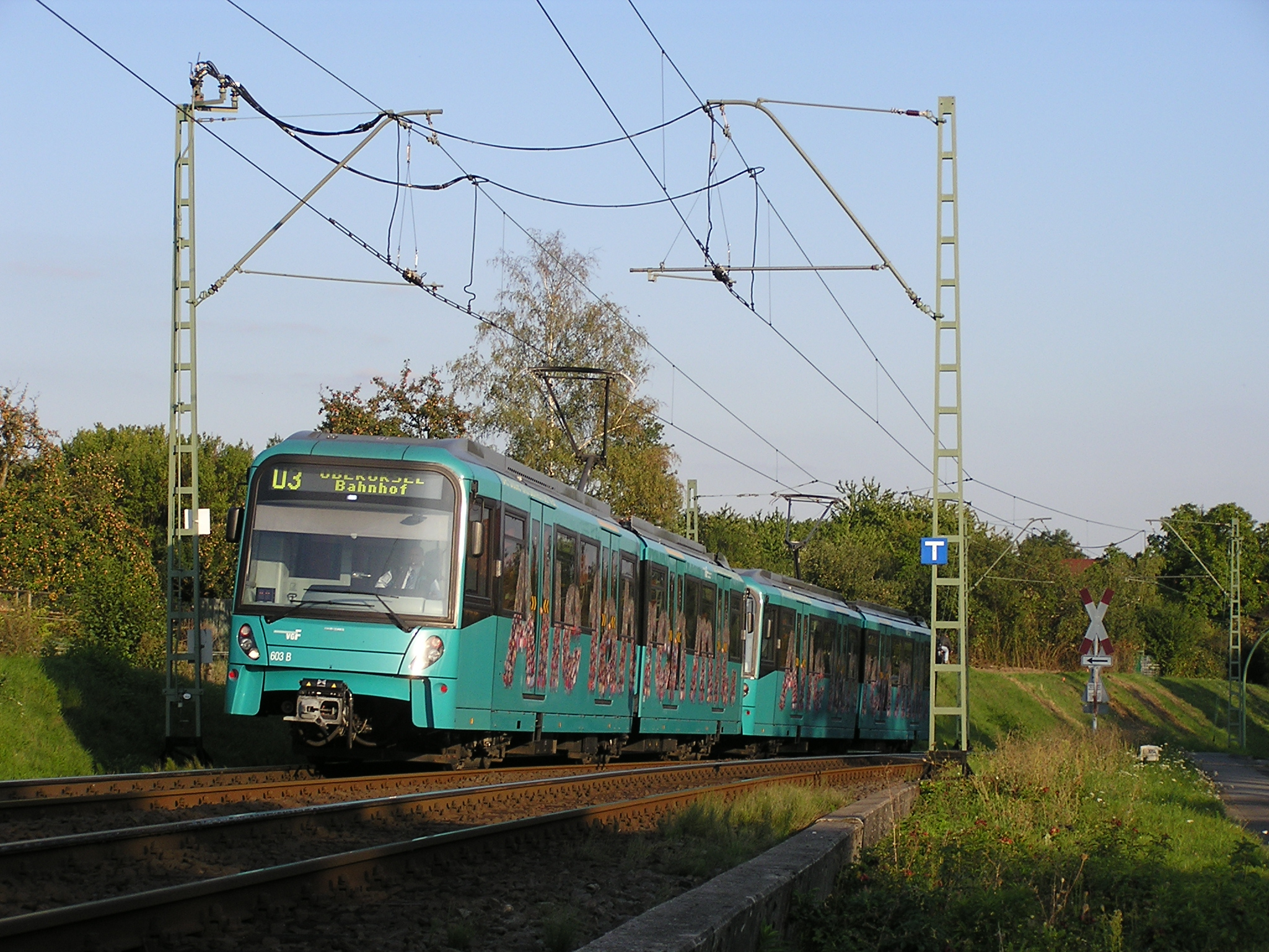 Some U5 cars as line U3 shortly after leaving Niederursel